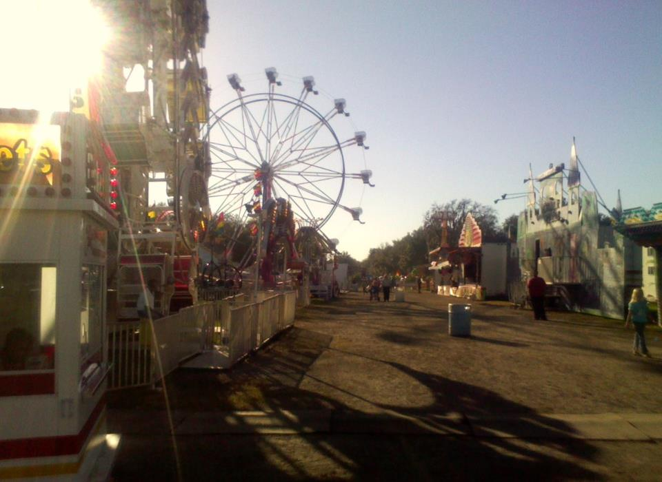 View of the rides on the midway at the Hillsborough County Fair 2012.